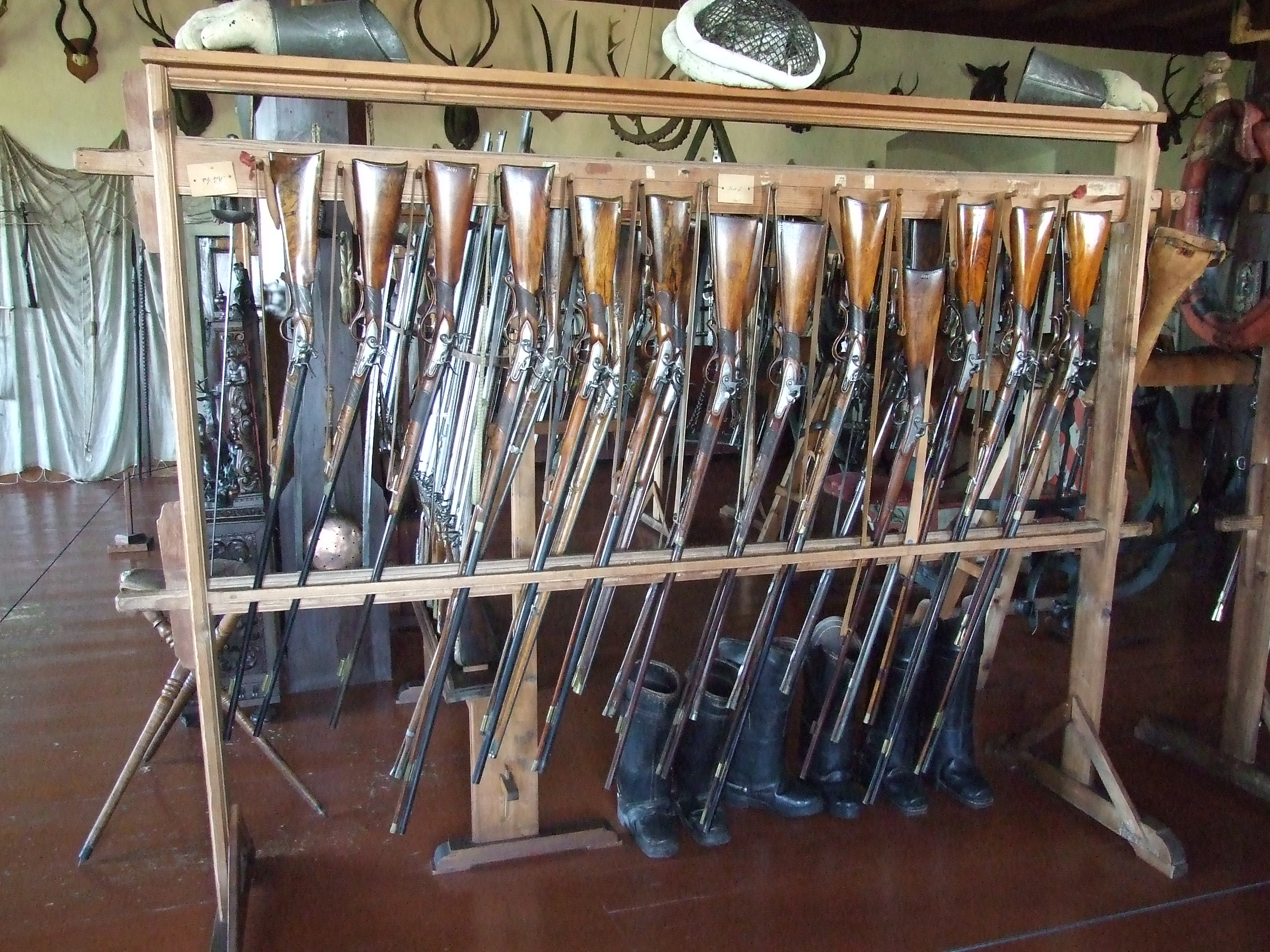 Opočno castle